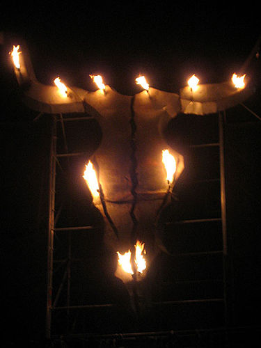 Wacken logo